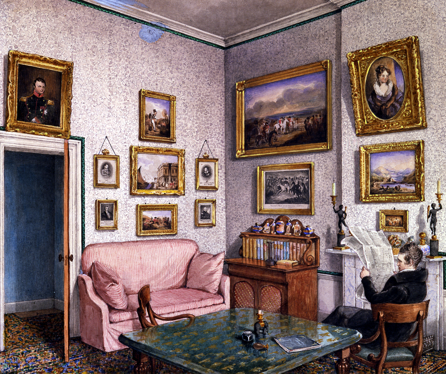 Watercolour of a man reading inside a room.